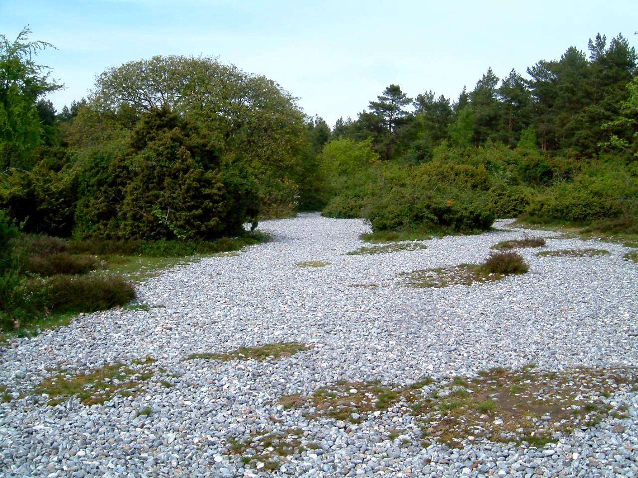 Flint field with juniper shrubs in the "Stone Fields in the Schmale Heath" nature reserve on the island of Rügen, Mecklenburg-Vorpommern, Germany